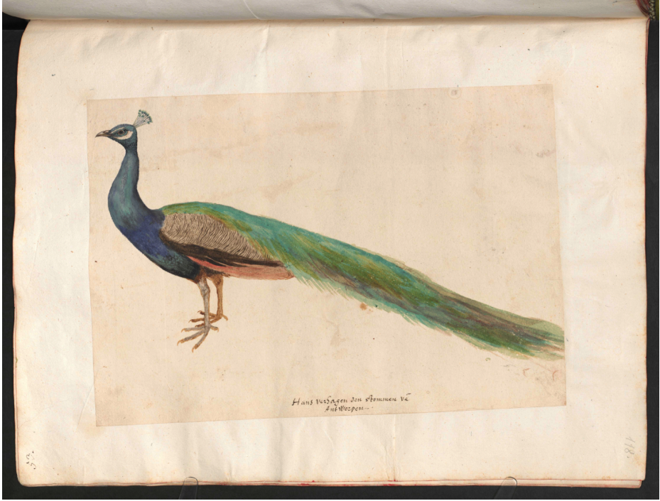 Hans Verhagen den Stommen - Drawing of a peacock, paper, brush in colour, body colour, from a codex of natural history drawings from the collection of Emperor Rudolf II, now kept at the Österreichische Nationalbibliothek